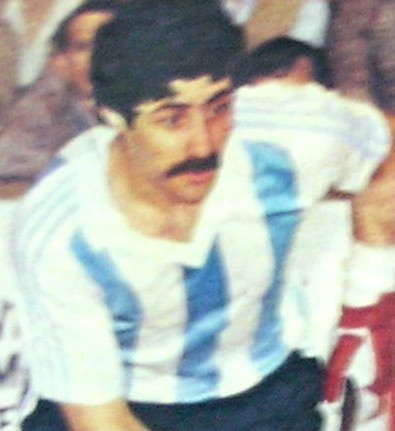 Daniel Martinazzo. Hockey roller (Hockey sobre patines). Argentina